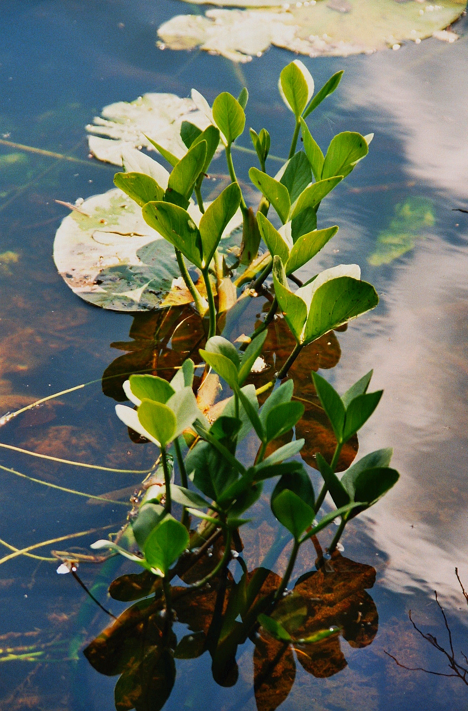 Marsh Trefoil (Menyanthes trifoliata) at Lake Großes Heiliges Meer [Great Holy Sea] in the nature reserve „Heiliges Meer“ in Recke-Obersteinbeck, Kreis Steinfurt, North Rhine-Westphalia, Germany.